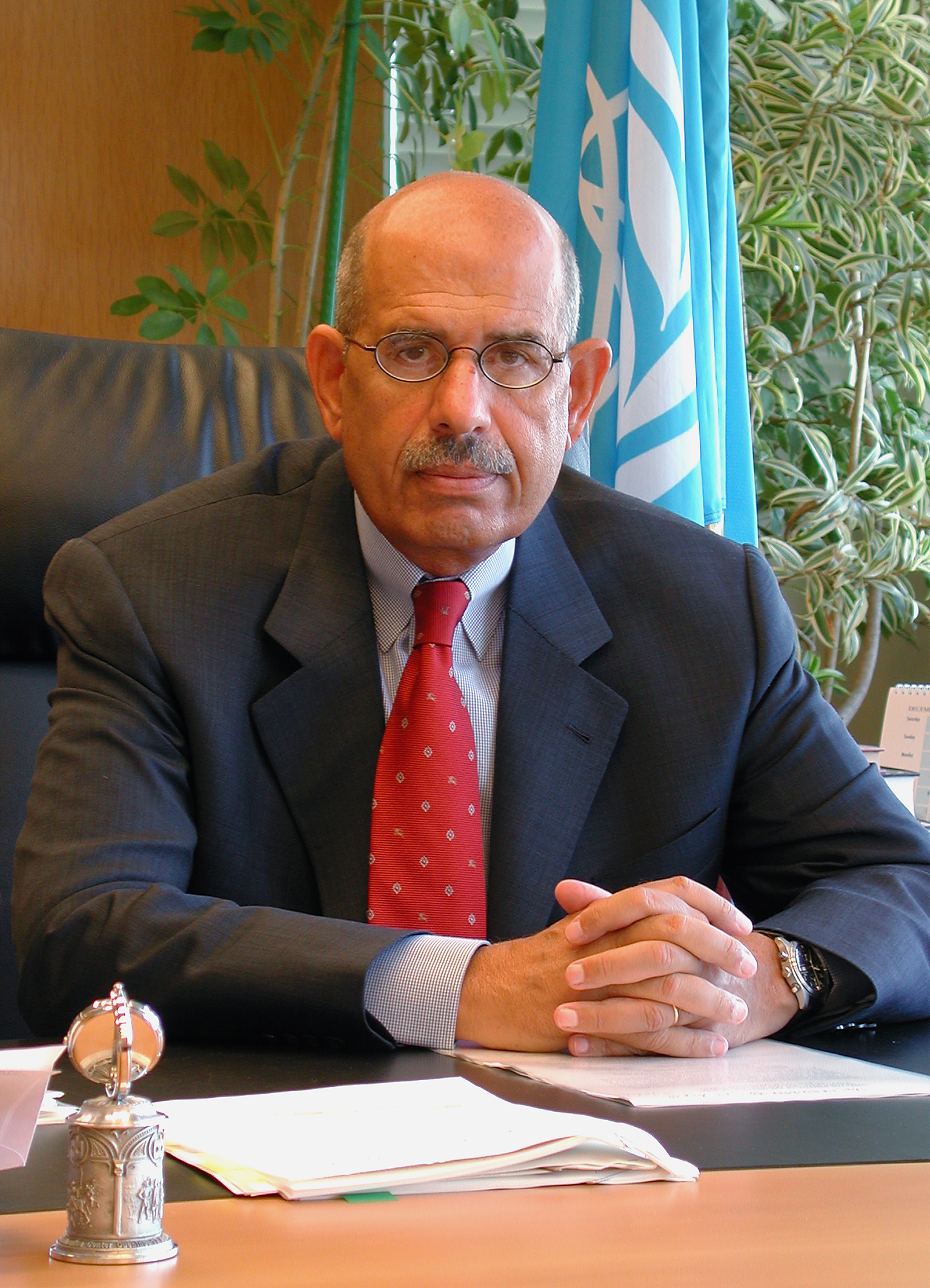 IAEA Director General Mohamed ElBaradei Copyright: IAEA Imagebank Photo Credit: Dean Calma / IAEA